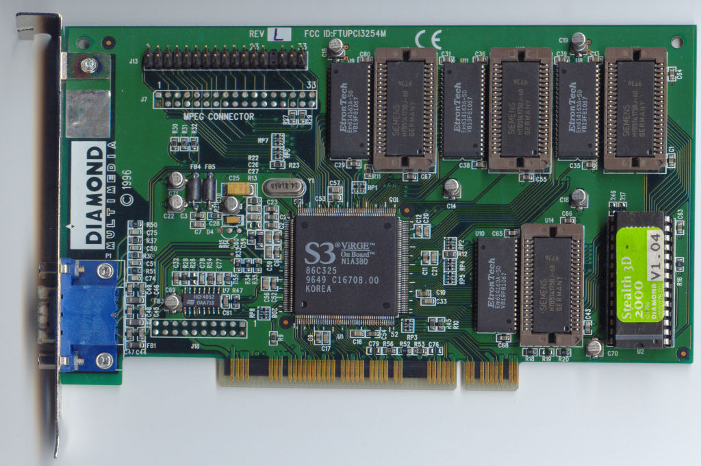 Diamond Stealth 3D 2000 video card, which is based on the S3 ViRGE 2D/3D accelerator chipset.